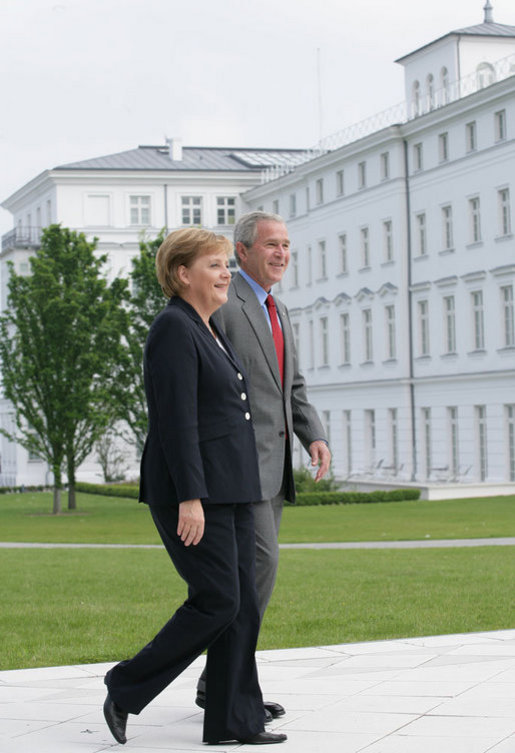 Bush and Merkel at the 33rd G8 Summit. Lunch with the Chancellor of Germany. Kempinski Grand Hotel Heiligendamm.